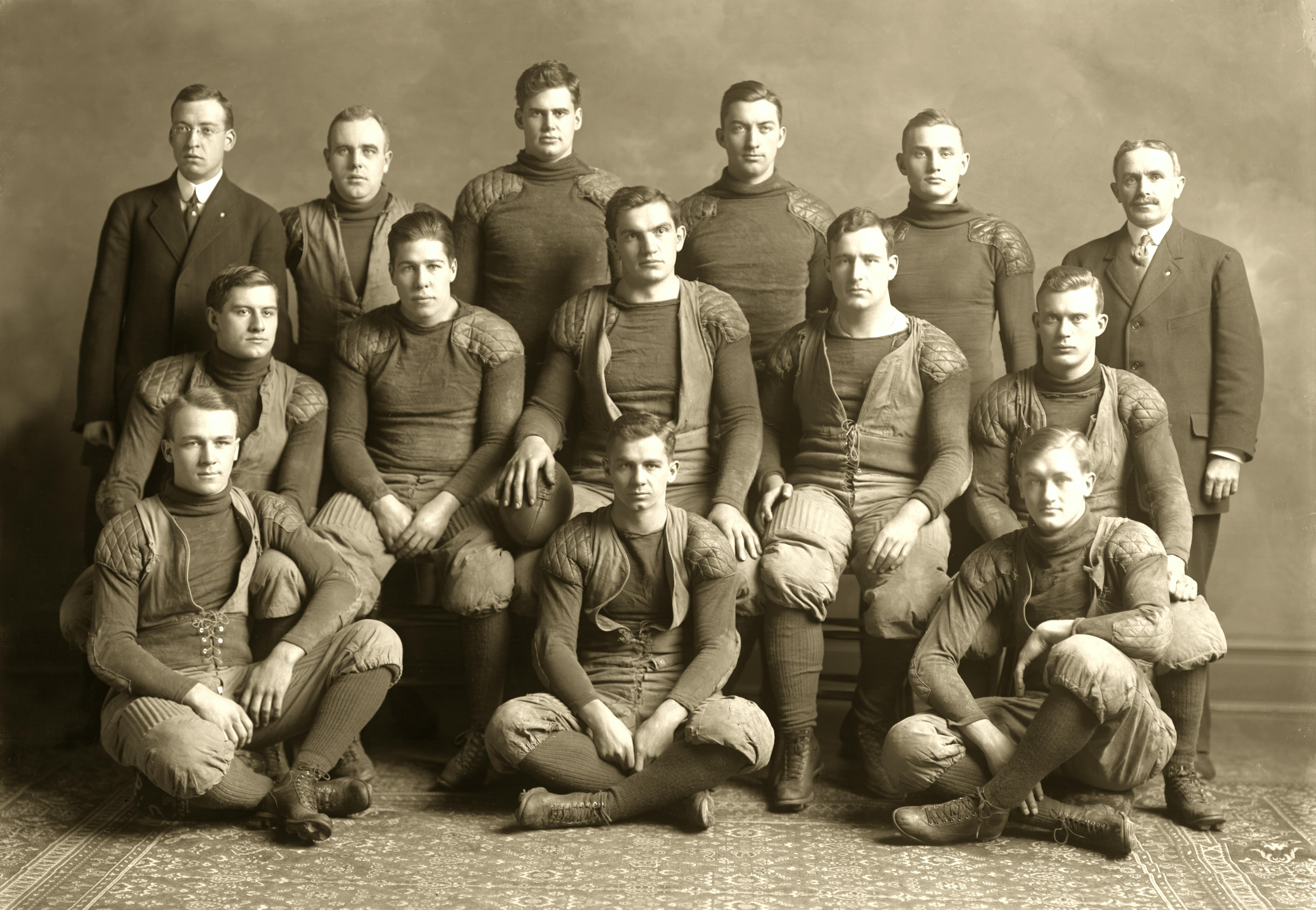 1908 University of Michigan football team Front row: Frank Linthicum, William Wasmund, Leroy Ranney Middle row: William Embs, Maurice E. Crumpacker, Germany Schulz, William Casey, Prentiss Douglas Back row: Thomas Clancy, Tom Riley, Albert Benbrook, Samuel Davison, David Allerdice, Keene Fitzpatrick